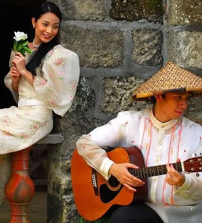 Harana is a form of serenade in the Philippines